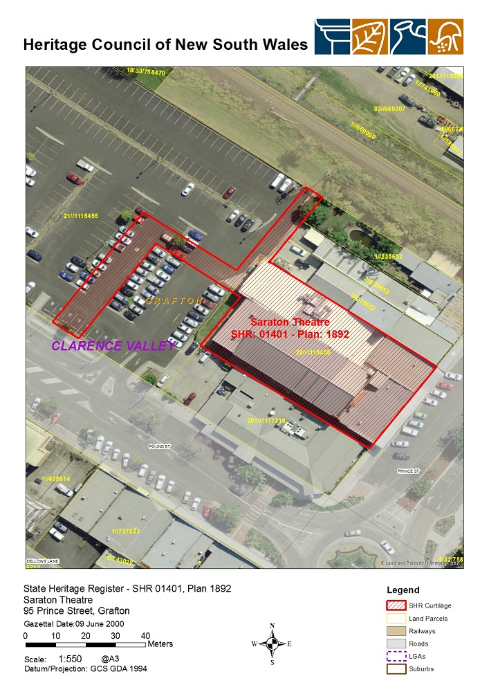 Saraton Theatre: SHR Plan 1892